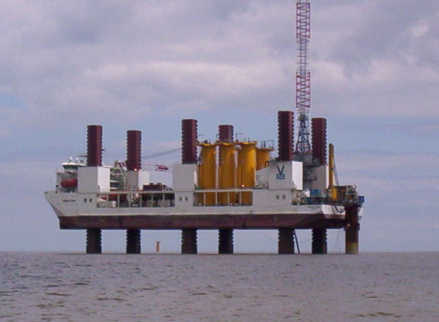 TIV Resolution raised out of the sea to install wind turbines. Lynn and Inner Dowsing Wind Farm